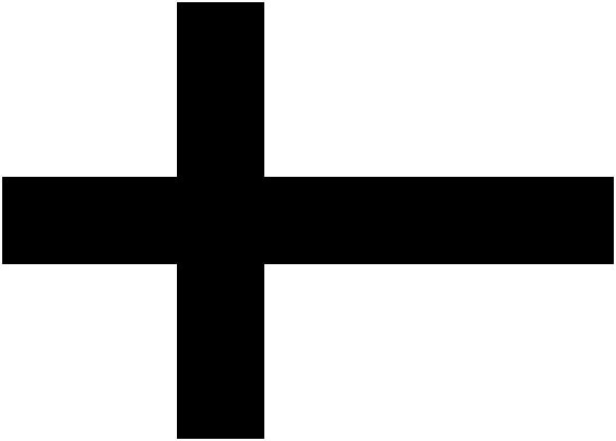 Nordic/Scandinavian cross